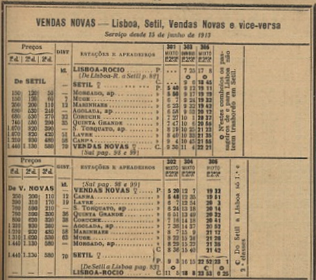 Timetable of the Linha de Vendas Novas (Vendas Novas Railway), in Portugal, on the 13th June 1913. This image was published on the Guia Official dos Caminhos de Ferro de Portugal No. 168, of October 1913, and scanned by the Biblioteca Nacional de Portugal.